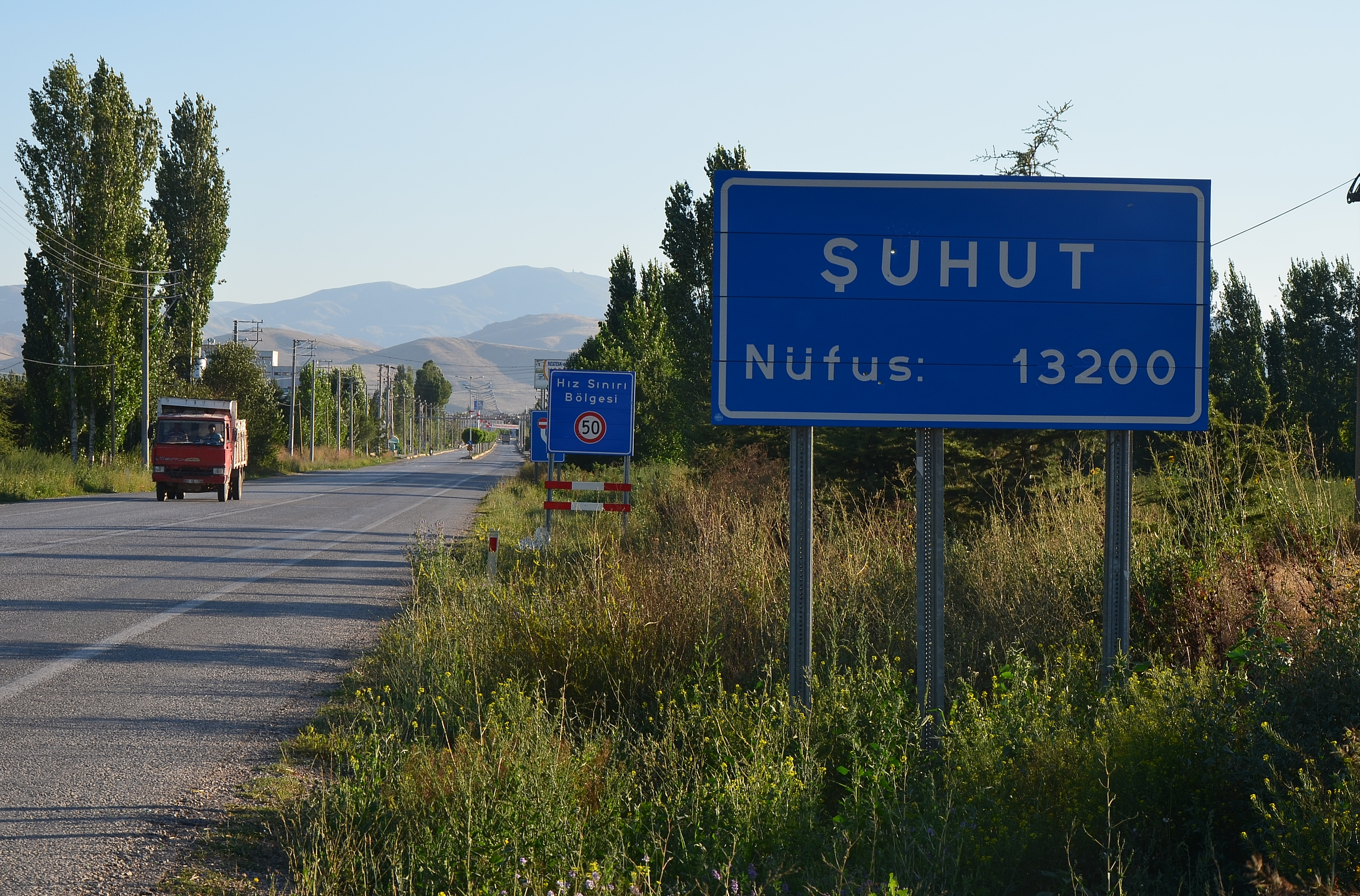 City limit sign of Şuhut, Afyankarahisar in Turkey on the provincial road 03-26.